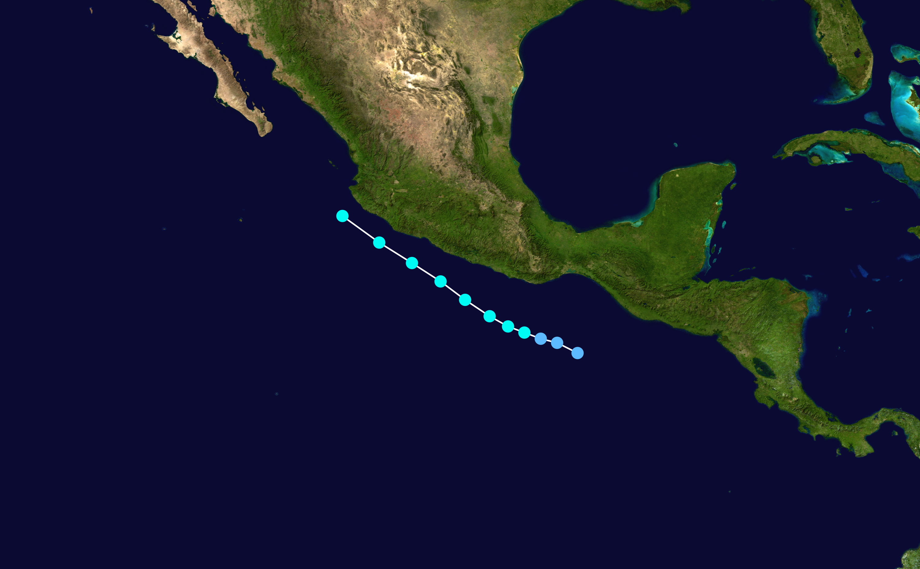 Track map of Tropical Storm Ileana of the 2018 Pacific hurricane season. The points show the location of the storm at 6-hour intervals. The colour represents the storm's maximum sustained wind speeds as classified in the Saffir–Simpson scale (see below), and the shape of the data points represent the nature of the storm, according to the legend below. Saffir–Simpson scale Tropical depression≤38 mph≤62 km/h Category 3111–129 mph178–208 km/h Tropical storm39–73 mph63–118 km/h Category 4130–156 mph209–251 km/h Category 174–95 mph119–153 km/h Category 5≥157 mph≥252 km/h Category 296–110 mph154–177 km/h Unknown Storm type Tropical cyclone Subtropical cyclone Extratropical cyclone / Remnant low / Tropical disturbance / Monsoon depression